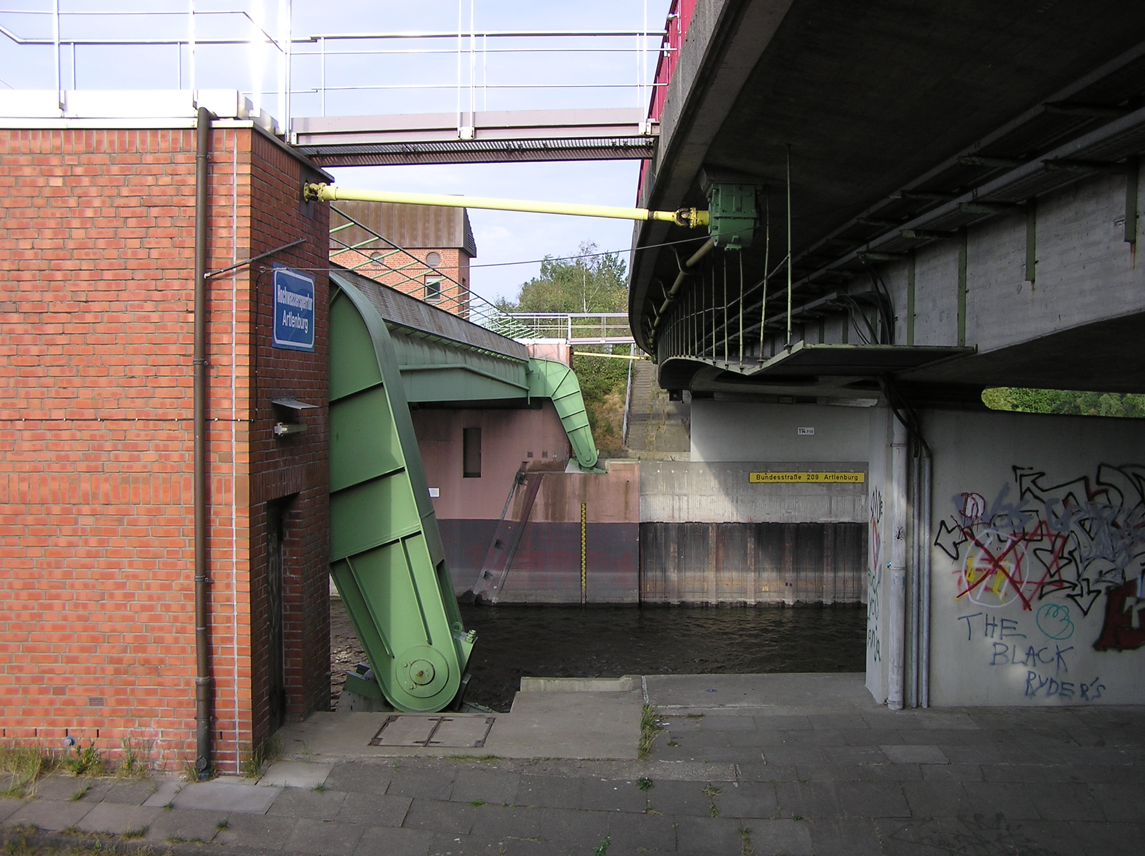 Barrier on the Elbe Lateral Canal near Artlenburg in Germany. The road bridge carries the B 209